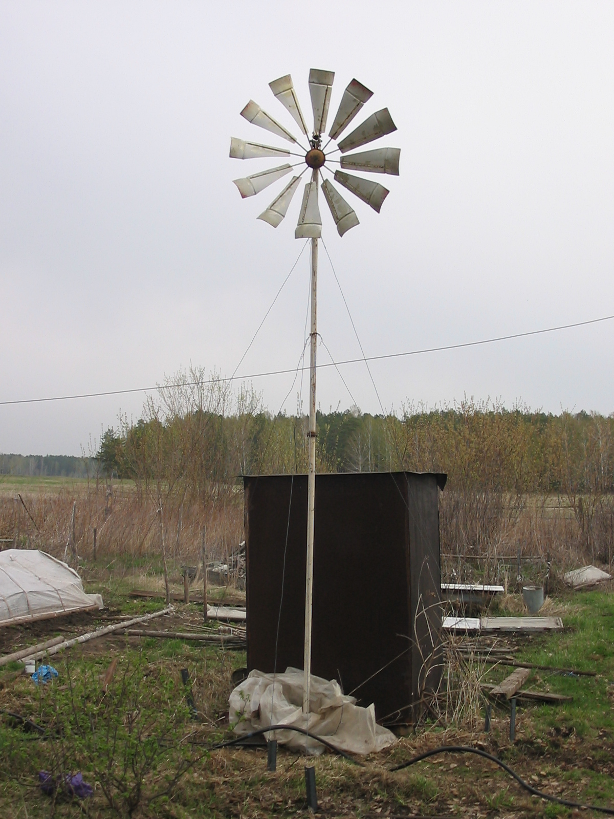 Widnpump "Romashka" for houshold use